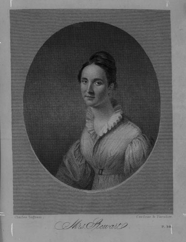 Mrs. Harriet Bradford Tiffany Stewart, wife of Charles Samuel Stewart, missionary to Hawaii. Queen Keopuolani of Hawaii adopted her name as her Christian name.